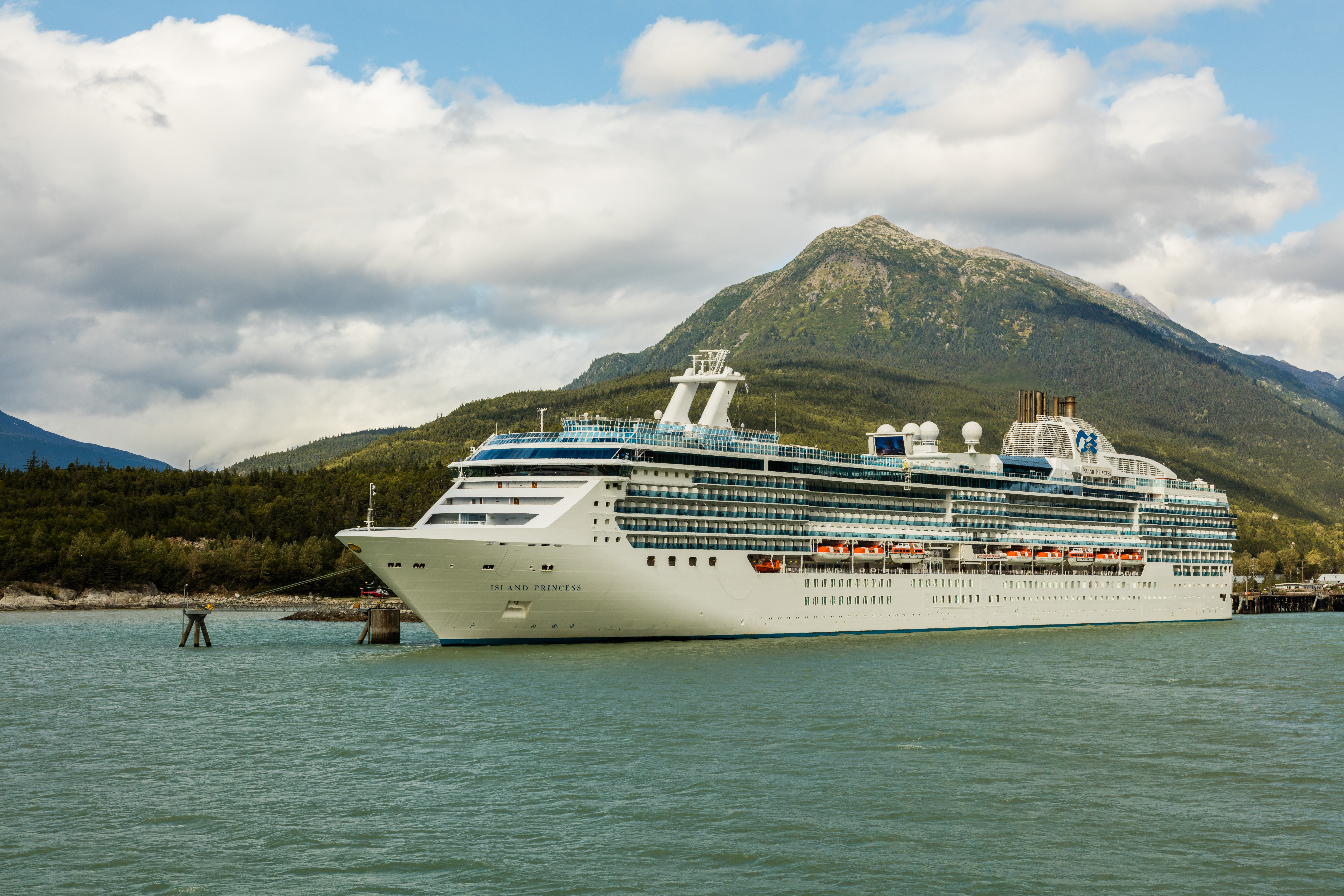 Island Princess vessel, Skagway, Alaska, USA